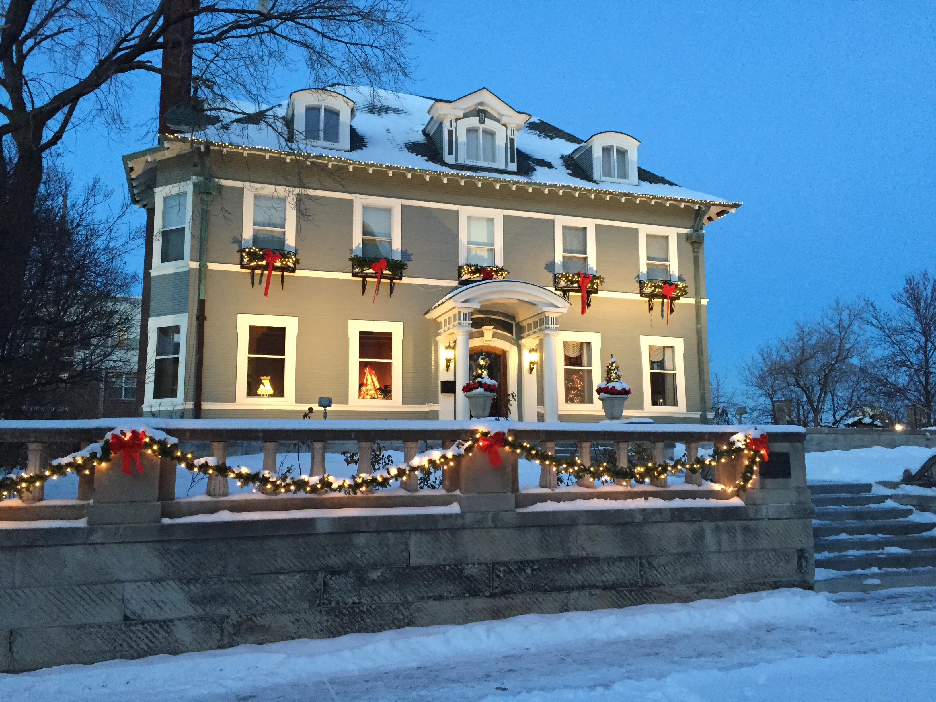 South face of the main edifice of the Carpenter mansion facing north on Clifton Avenue